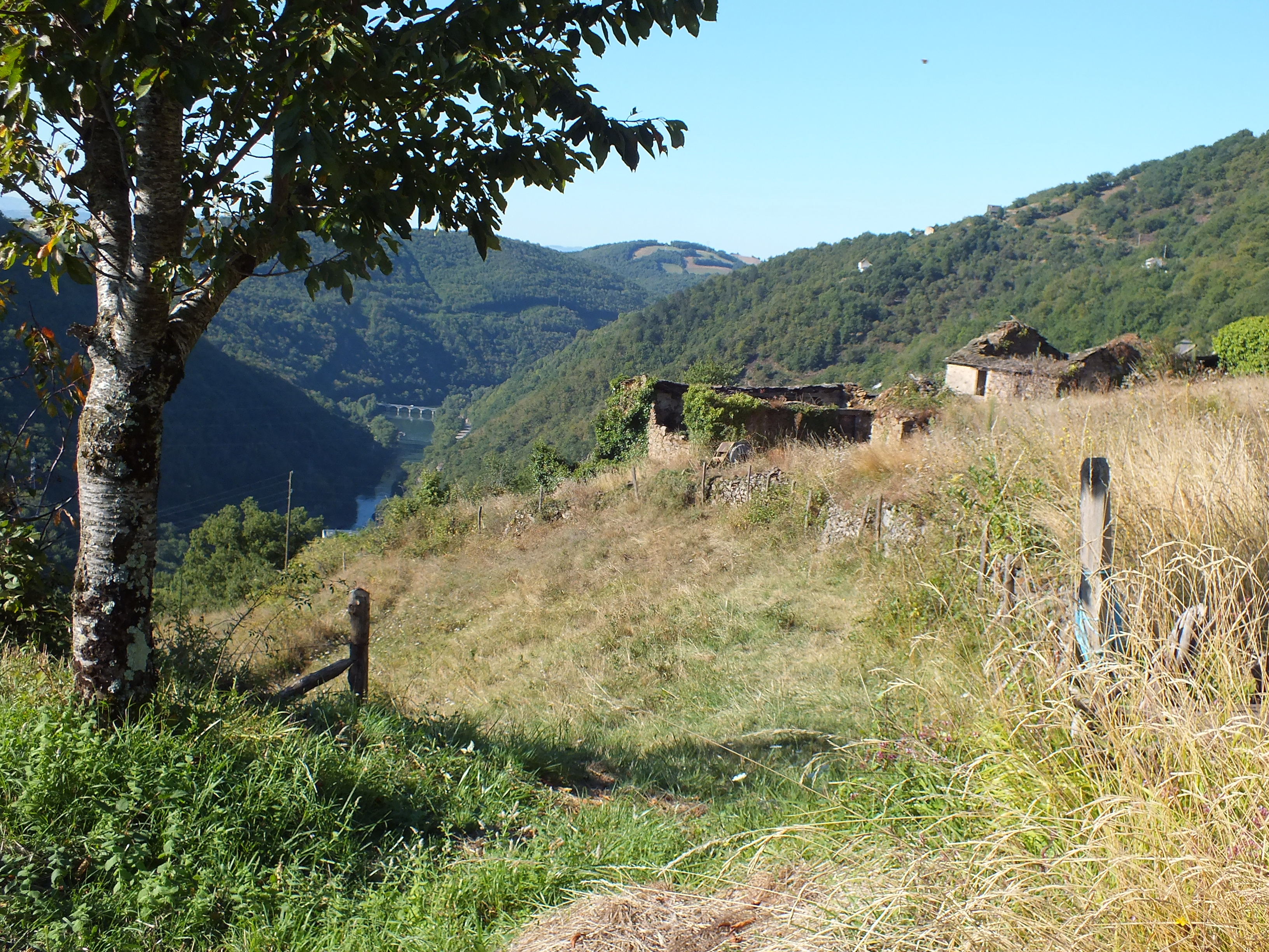 Le Pouget is a power station in the commune of Le Truel. The hamlet of Le Pouget is in the commune of Ayssènes in southern Aveyron, in the Raspes de Tarn region. It is just upstream of the bridge at Le Truel.